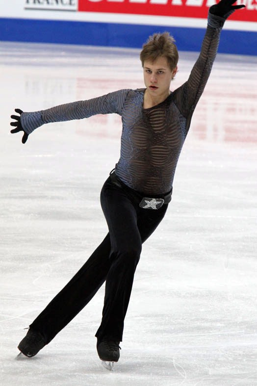 Saulius Ambrulevičius at the 2011 European Figure Skating Championships.